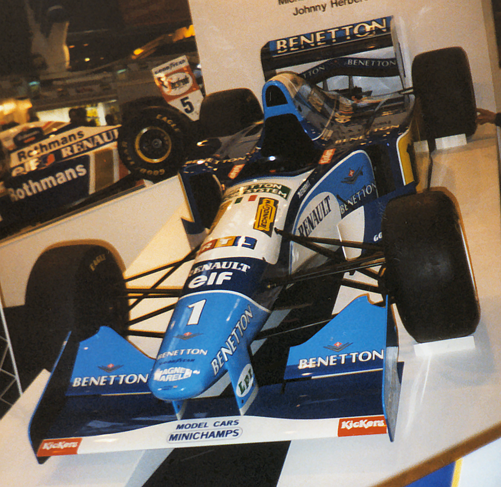 Michael Schumacher's Benetton B195 at the 1996 Autosport International Show